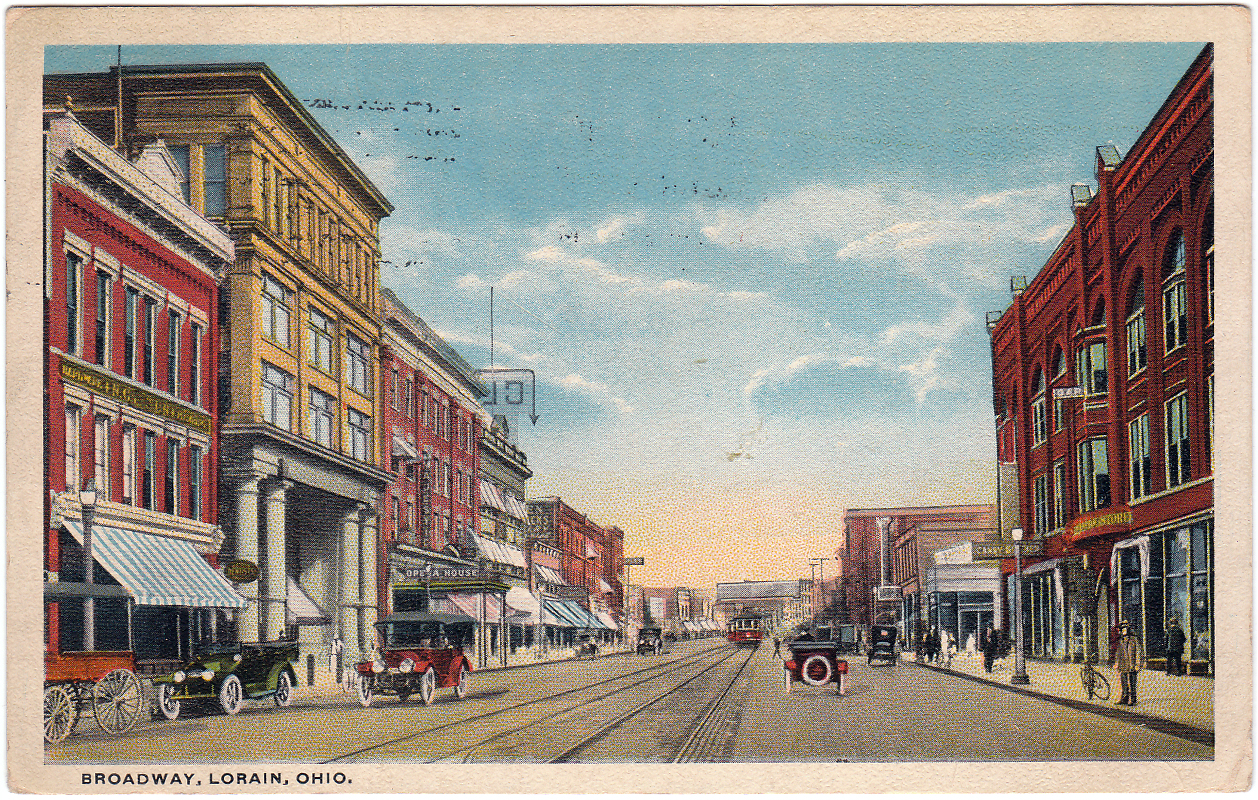 Broadway, Lorain, Ohio (1917 Postcard)